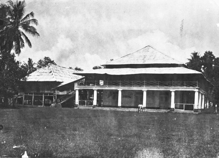 Palace of the kings of Goa at Djongaja near Makassar